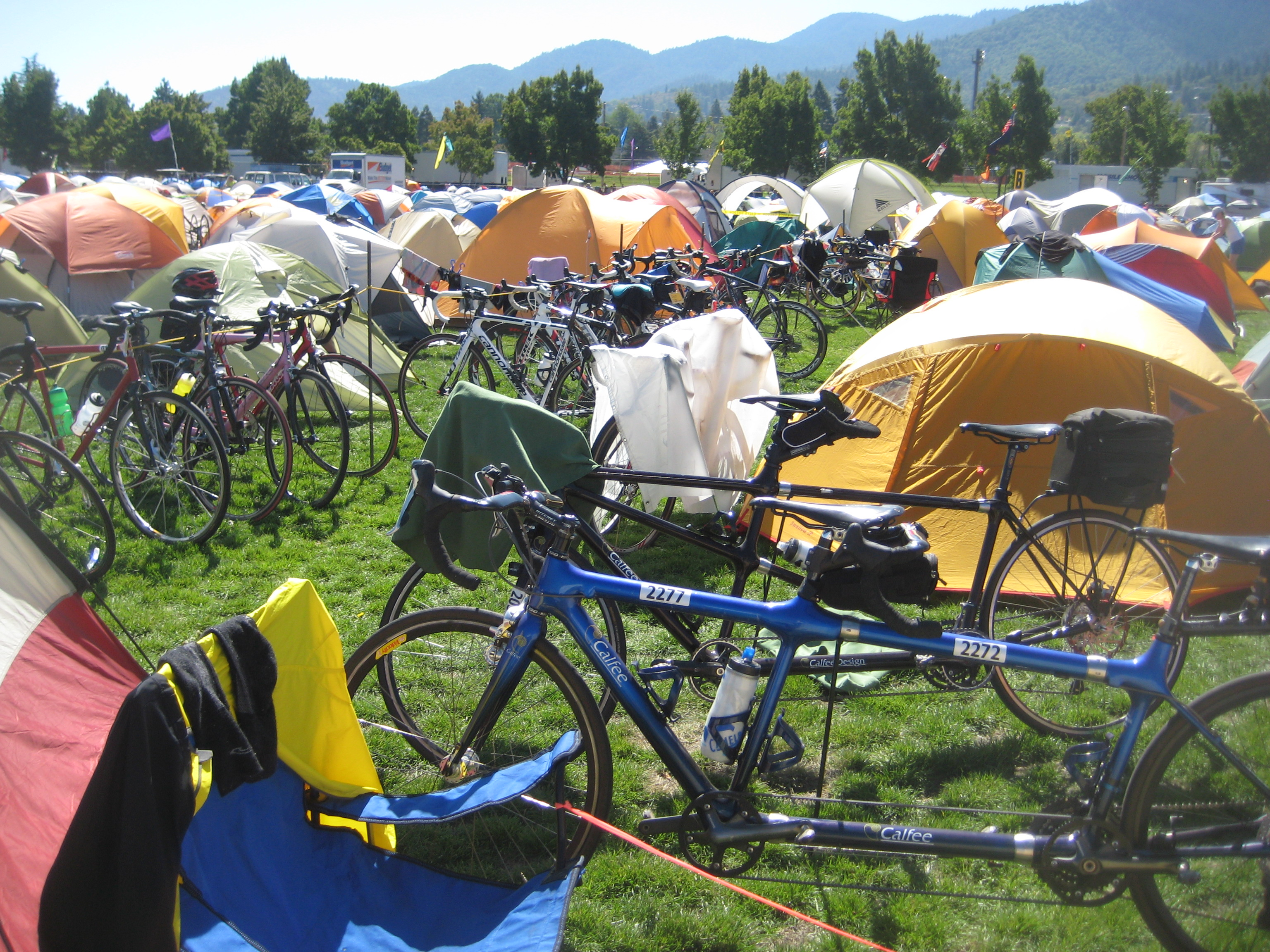 Any cyclists out there riding or following this year’s sold-out Cycle Oregon? Taking one of the best rides in America through the backroads of Oregon?